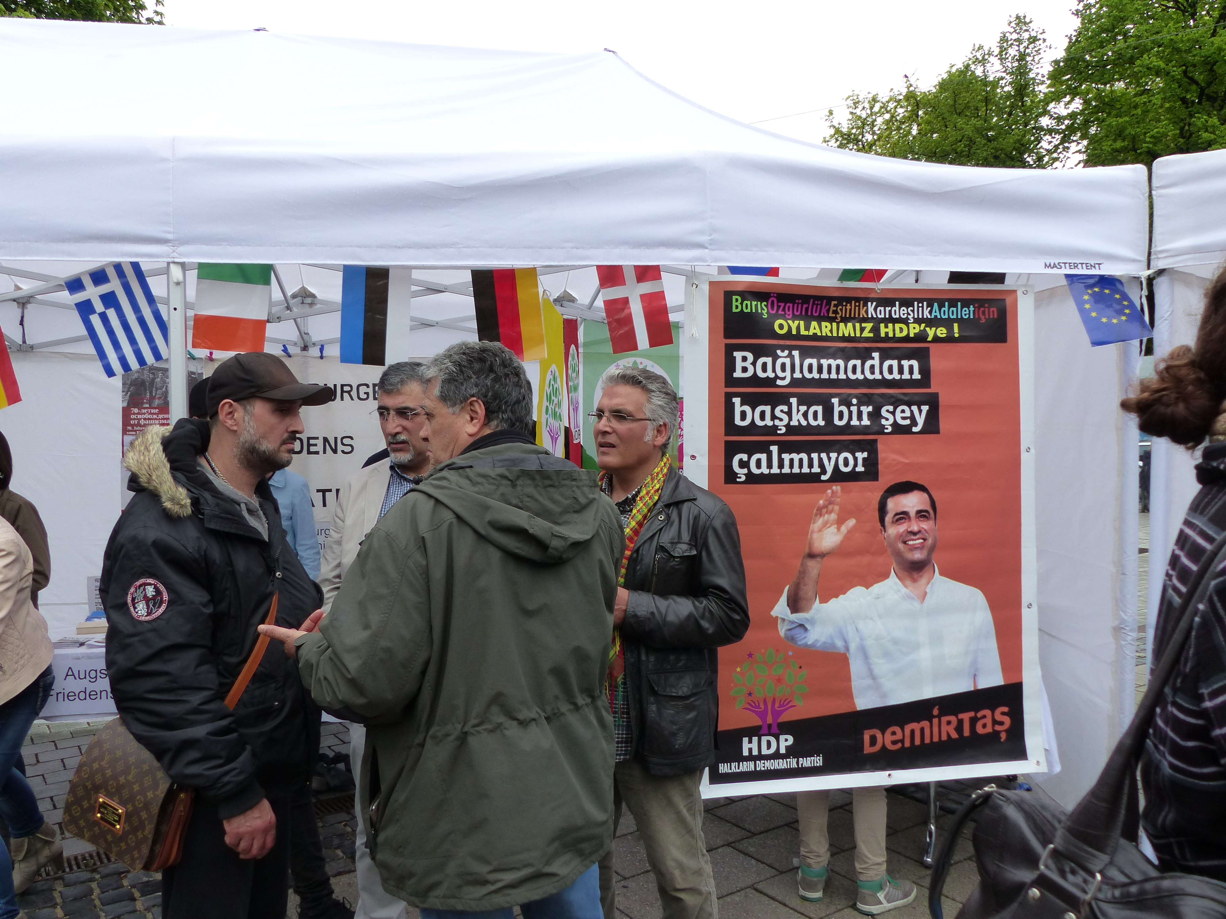 An election stand of the Peoples' Democratic Party of Turkey in Germany, 3 May 2015